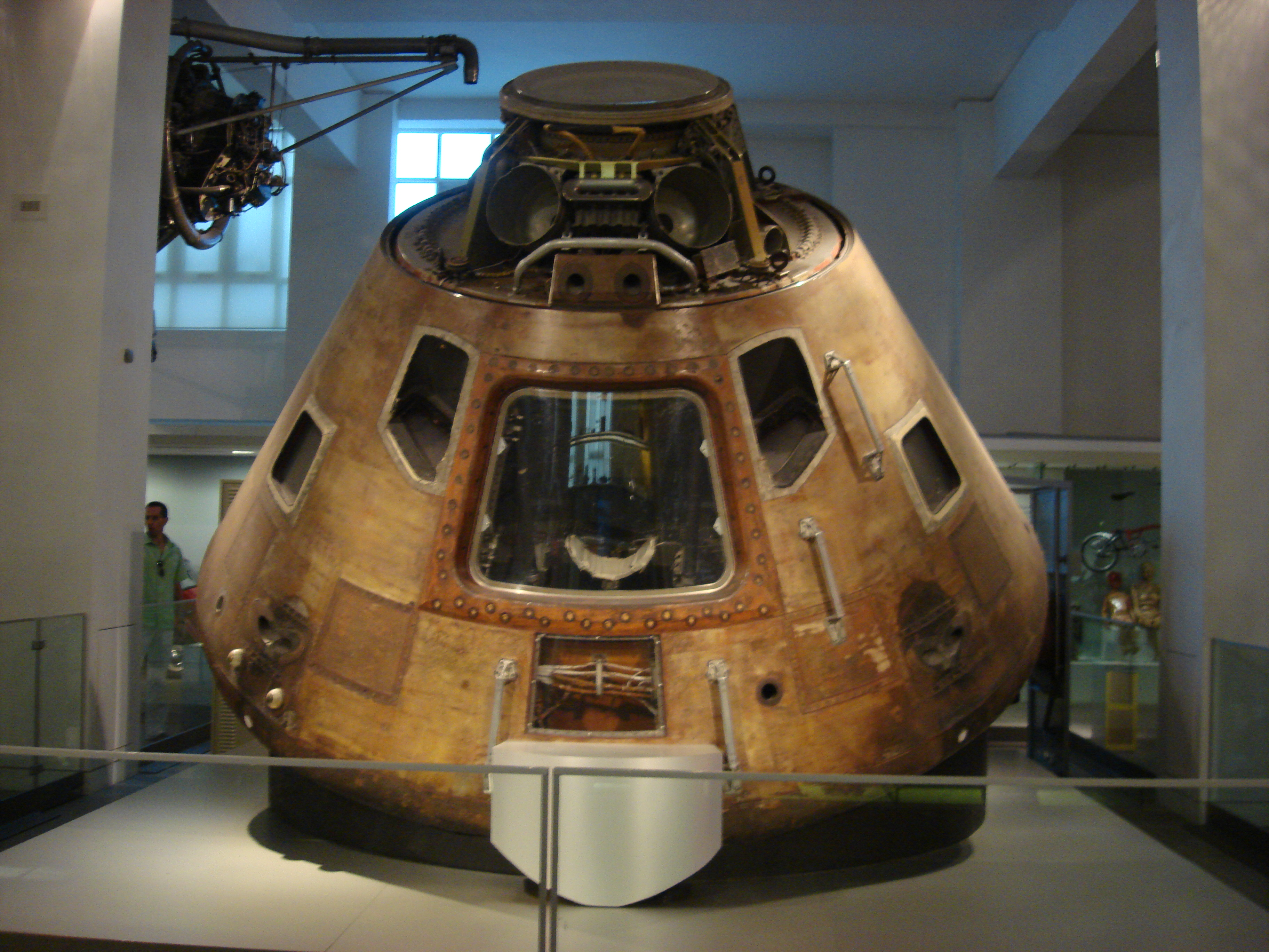 Apollo 10 Command Module at the Science Museum (London)